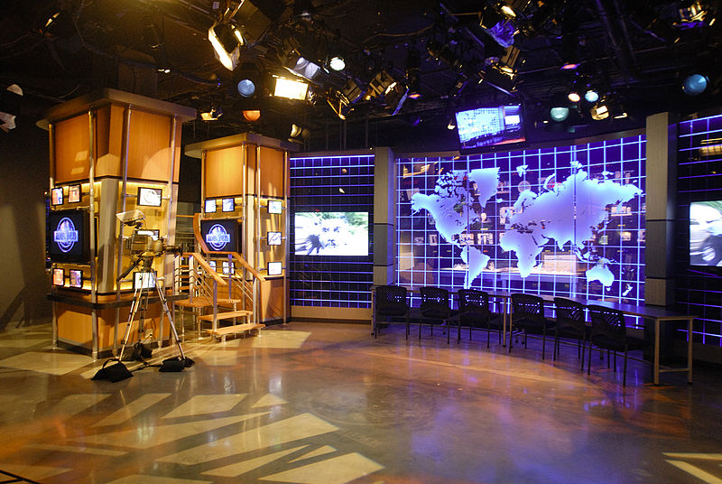 America's Most Wanted Studio at the National Museum of Crime & Punishment